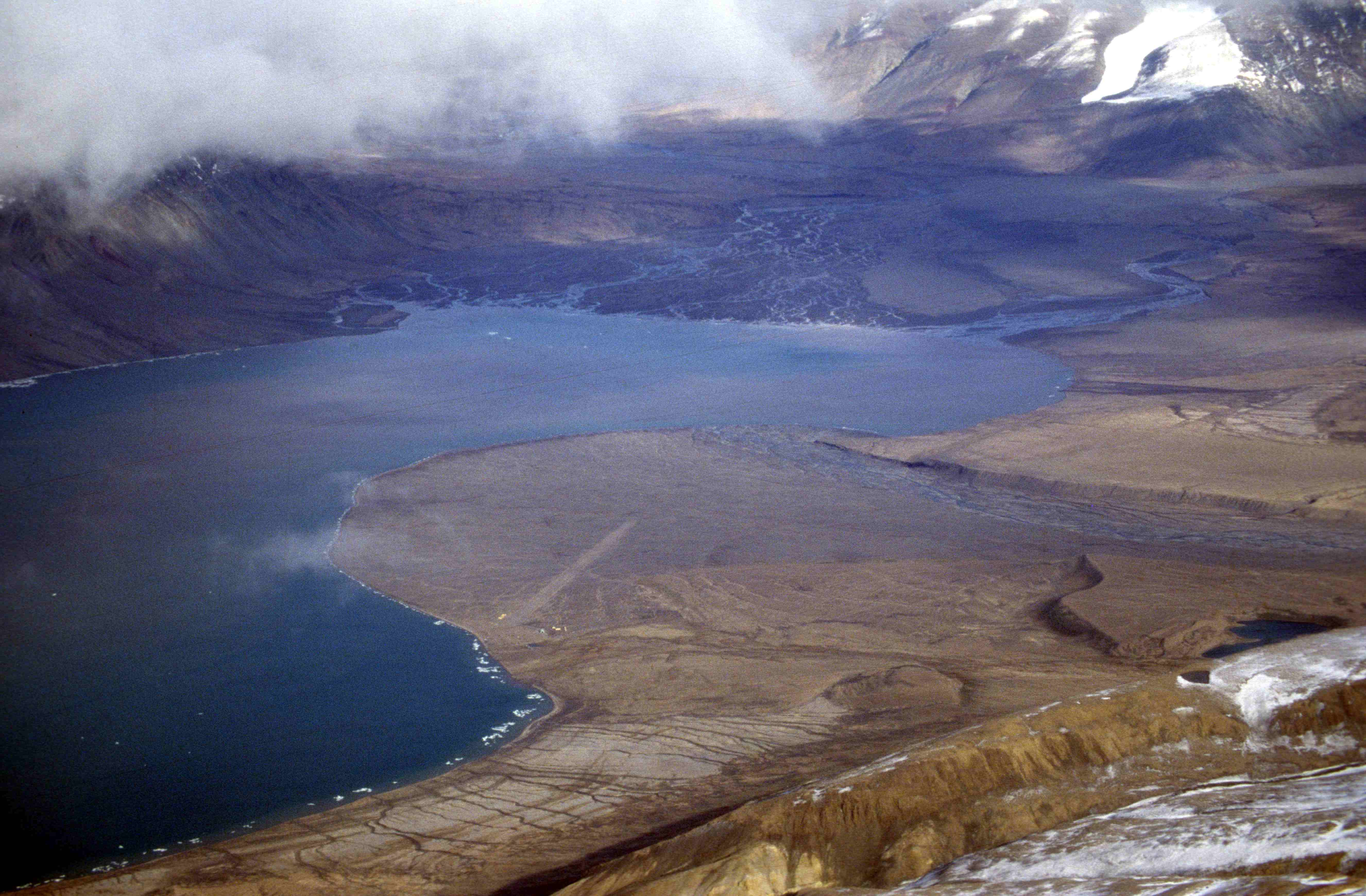 North-eastern final part of Tanquary Fiord: Parks Canada campsite and airstrip, delta of Air Force River and Rollrock River; to the right: mouth of Macdonald River; Quttinirpaaq National Park, Nunavut, Canada